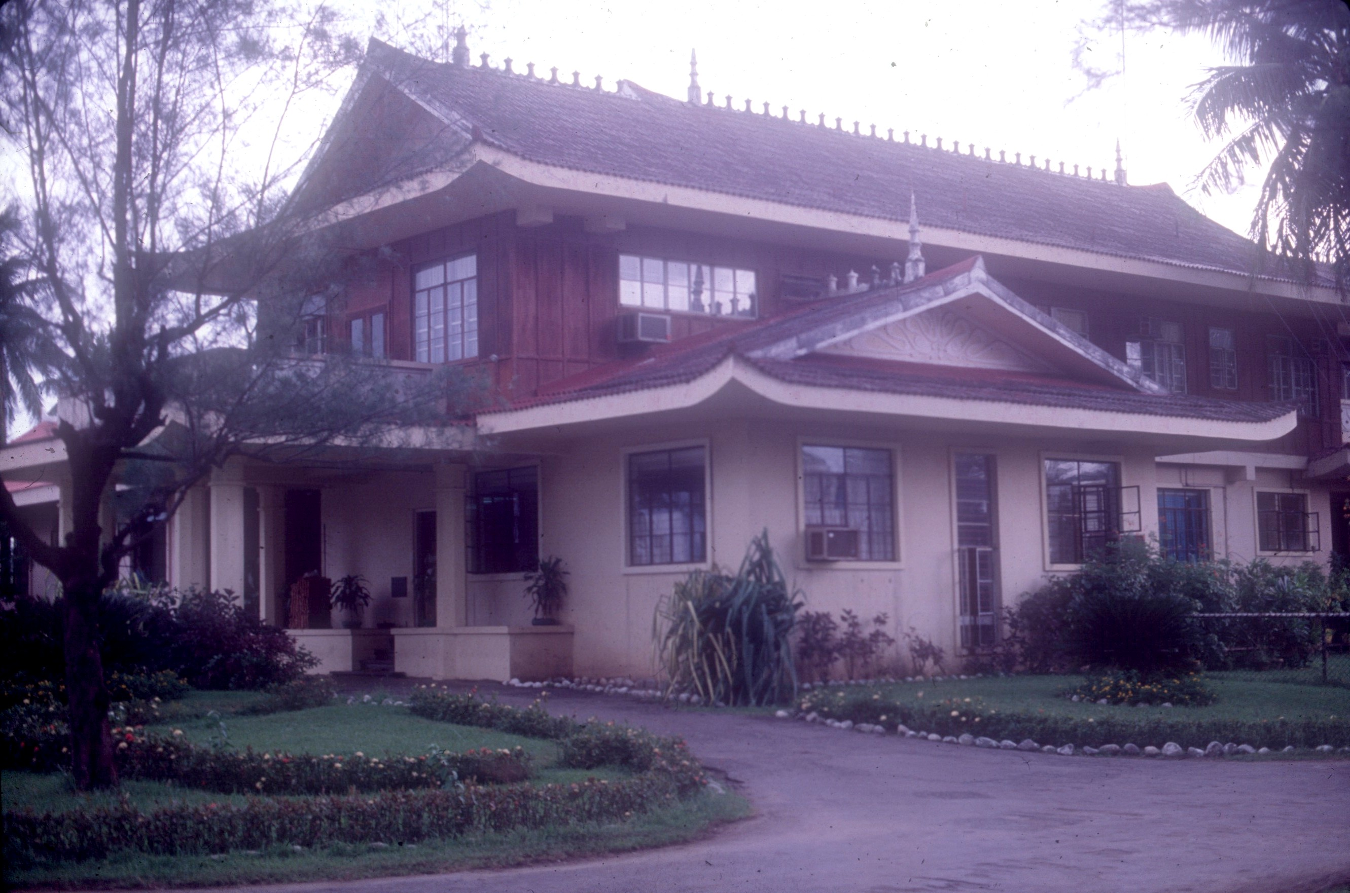 The Governor's Mansion, "Urduja House" on the Pangisinan Provincial Capitol Grounds in Lingayen.